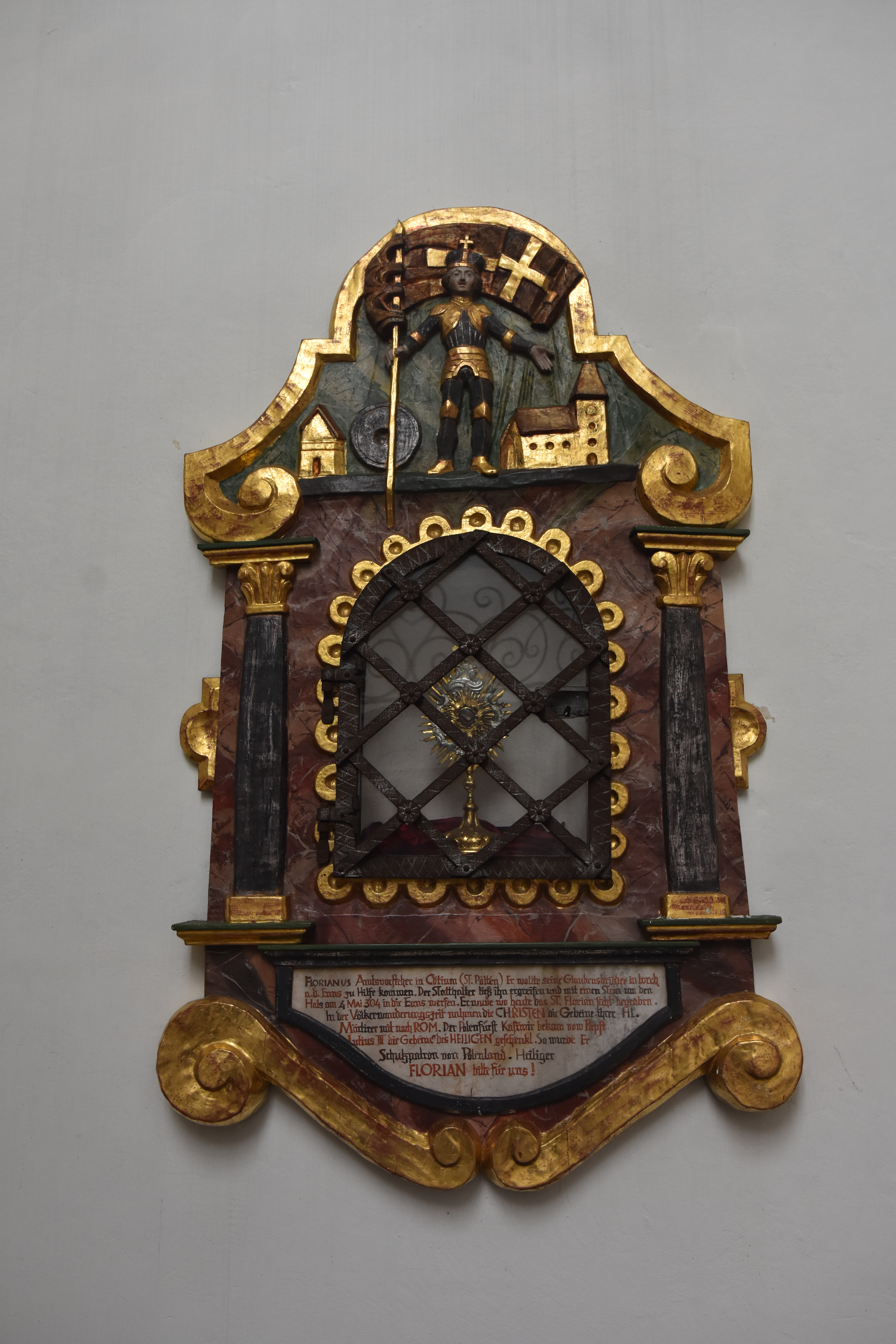 Church Groß Sankt Florian - Interior